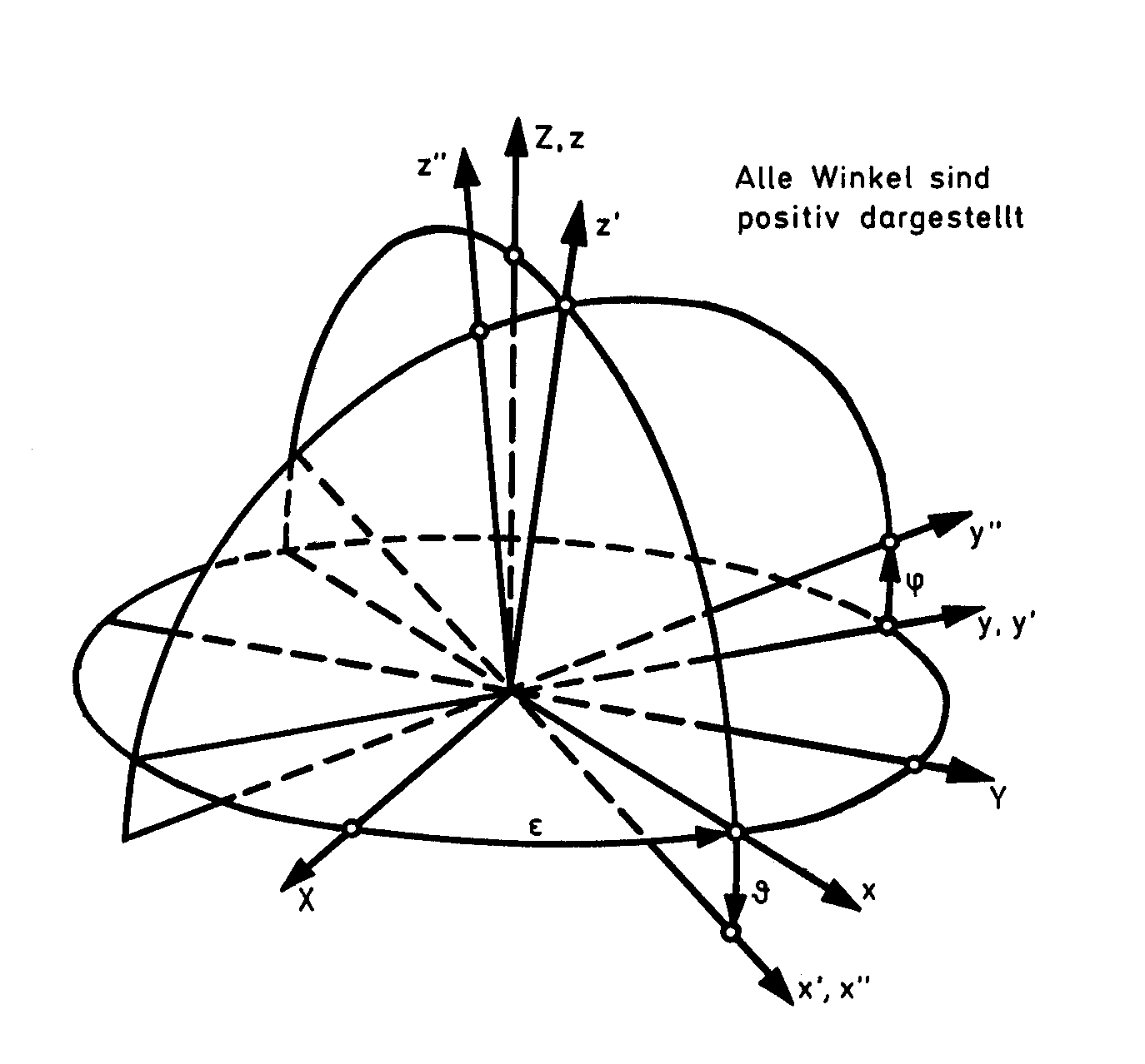 the movements yaw, pitch and roll from absolute coordinate system (X,Y,Z) to vehicle body's fix system (x", y",z") as described in germany's standard "DIN 70000: terms about vehicle dynamics" - is there an ISO equivalent? all angles are positively represented (="alle Winkel sind positiv dargestellt")